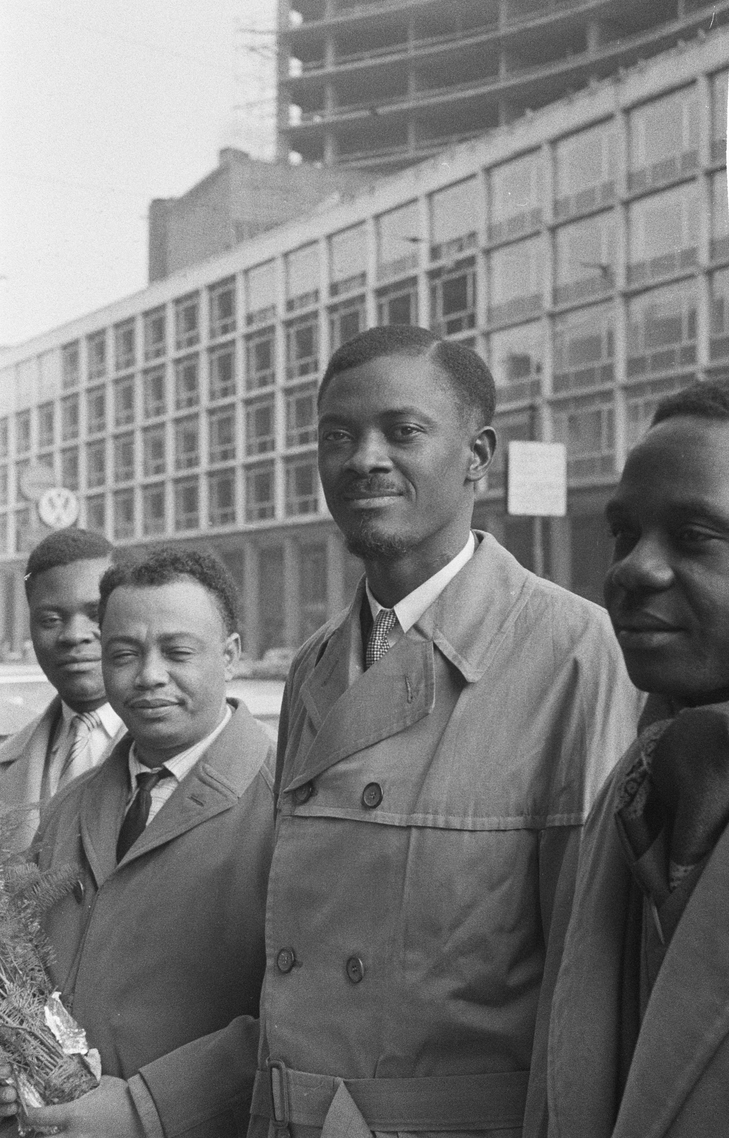 The Congolese leader Patrice Lumumba, during the round table conference in Brussels in January 1960